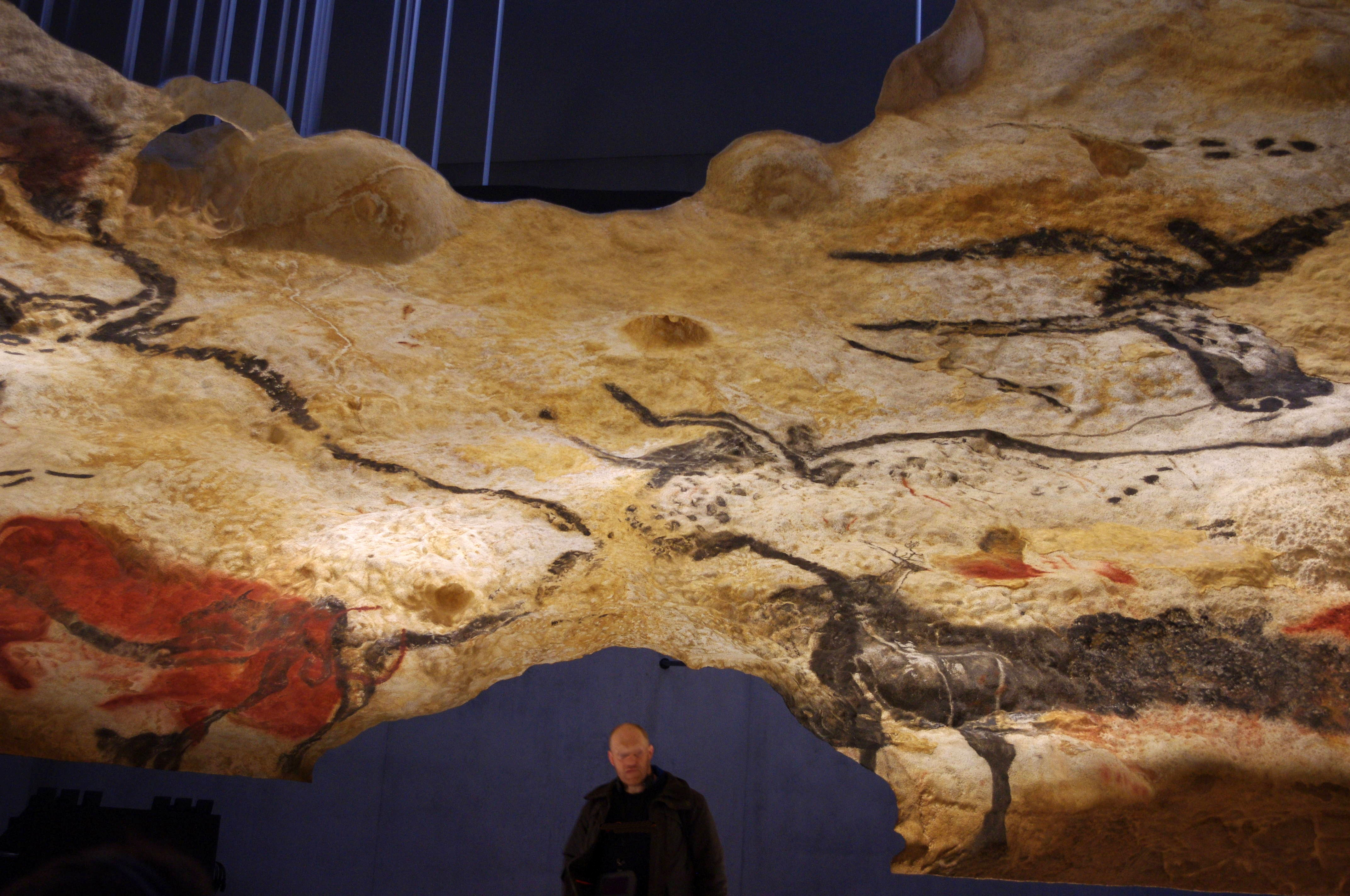 Lascaux 4, Montignac, Dordogne, France. Pictures takes in the part called atelier.